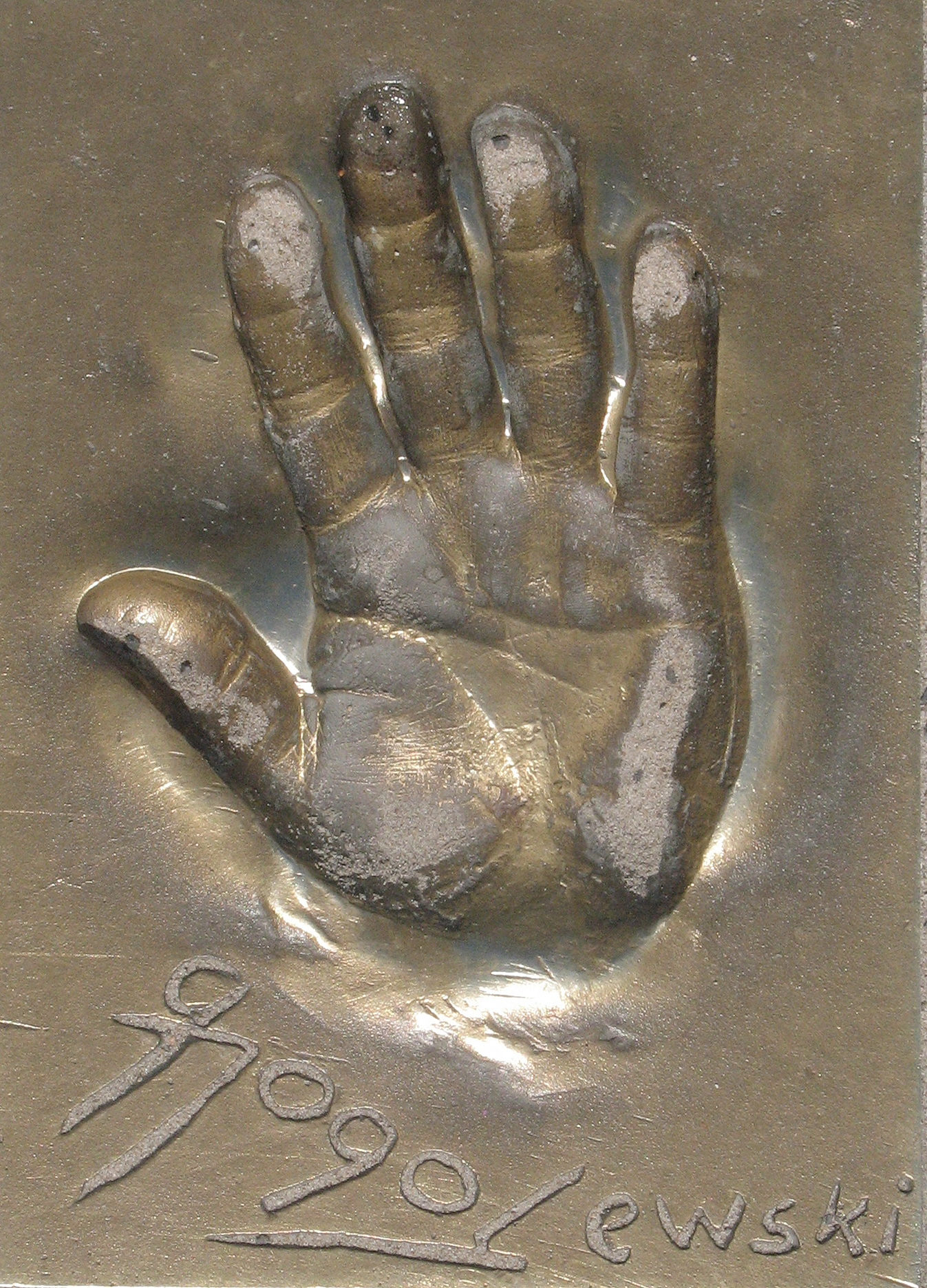 Ignacy Gogolewski - handprint and signature in Międzyzdroje